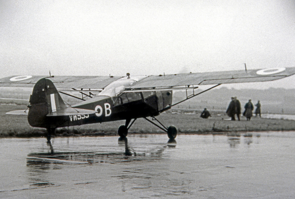 Auster AOP.6 VW993 of 663 (AOP) Squadron RAF at Tilstock airfield in 1952